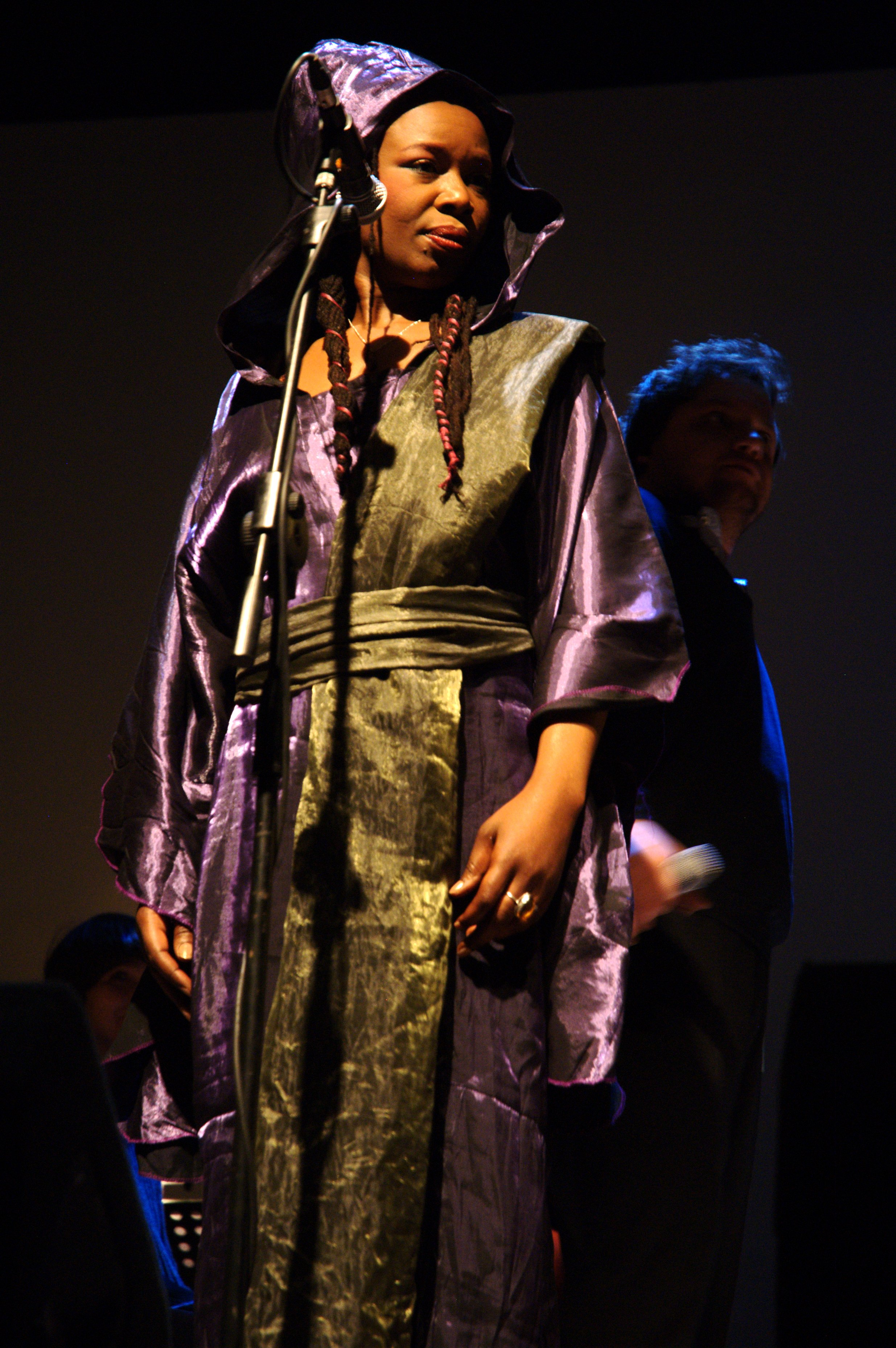 David Murray Pushkin, The Blackmoor of Peter The Great